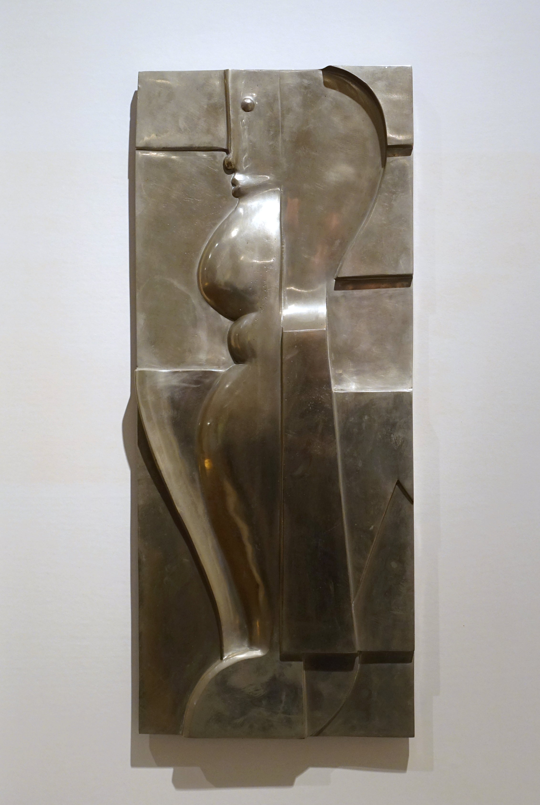 Relief H-6 PA by Oskar Schlemmer, Tut Schlemmer, Edition 1 of 7, 1919, cast nickel - Museum für Angewandte Kunst Köln - Cologne, Germany.